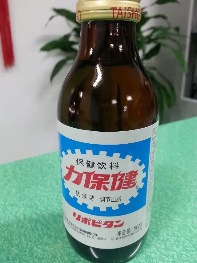 Lipovitan 力保健 リポビタンD